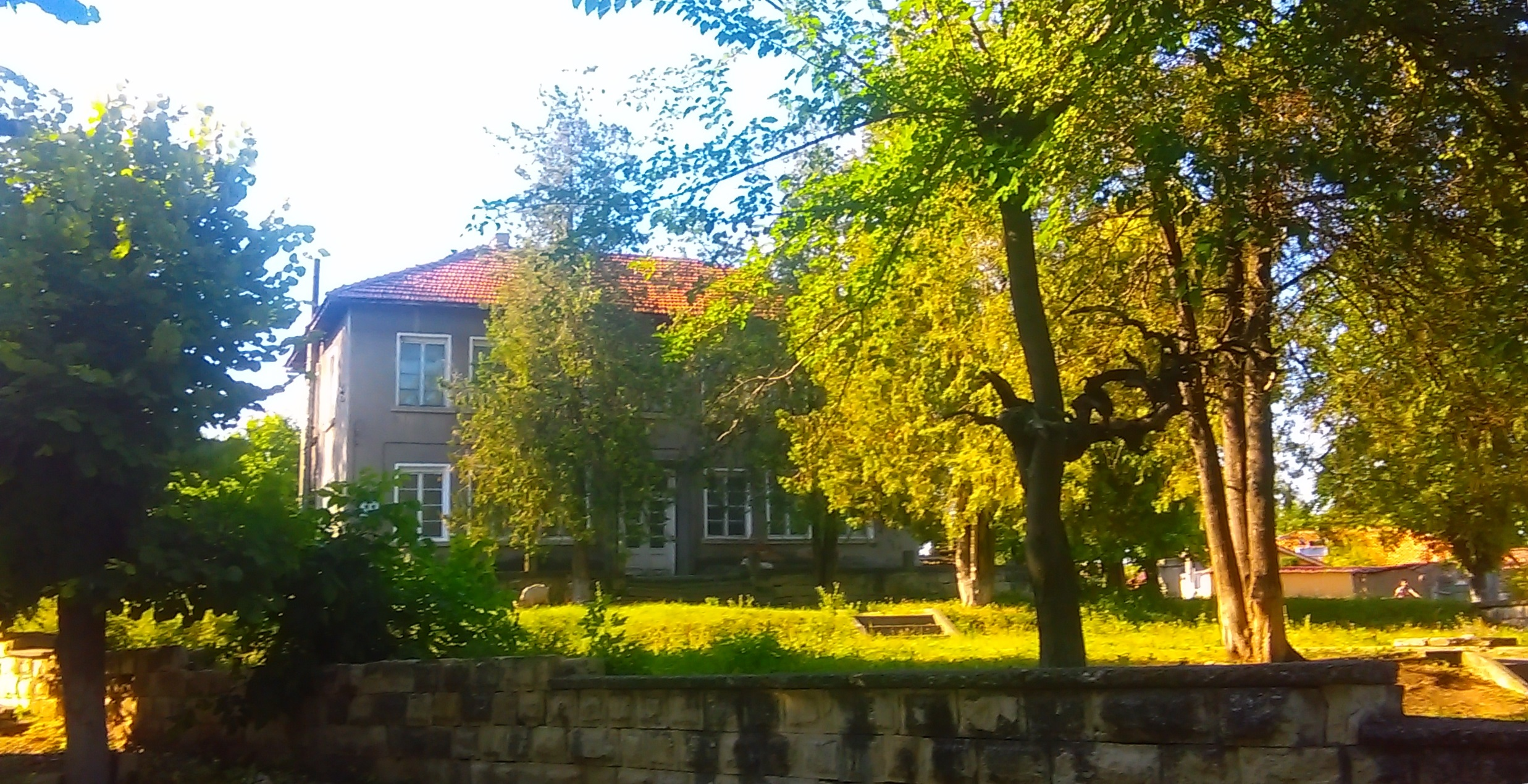 Healthcare office in Kamenar, Razgrad district, Bulgaria